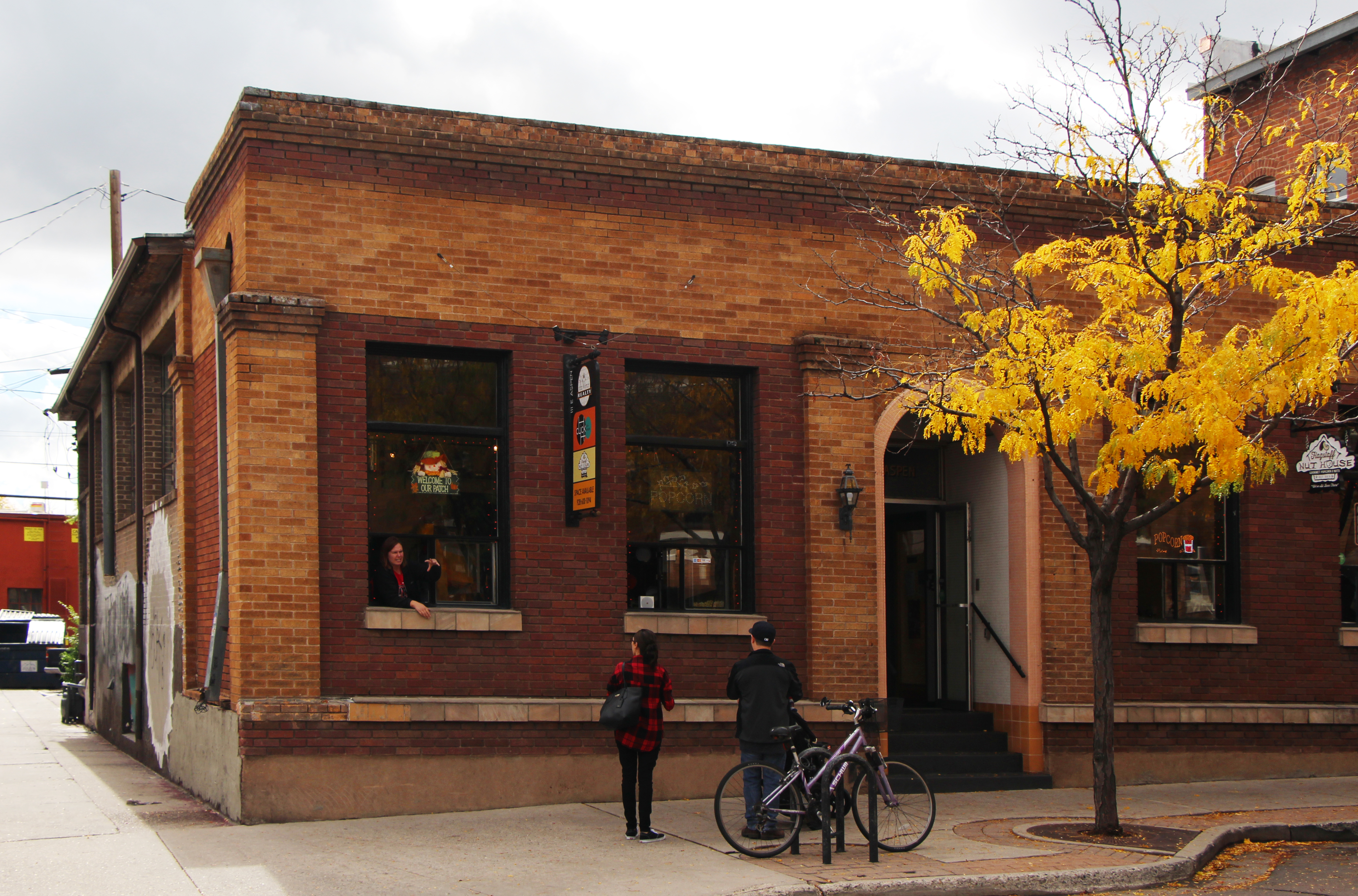 Coconino Sun Building, 111 E. Aspen Ave., Flagstaff, AZ